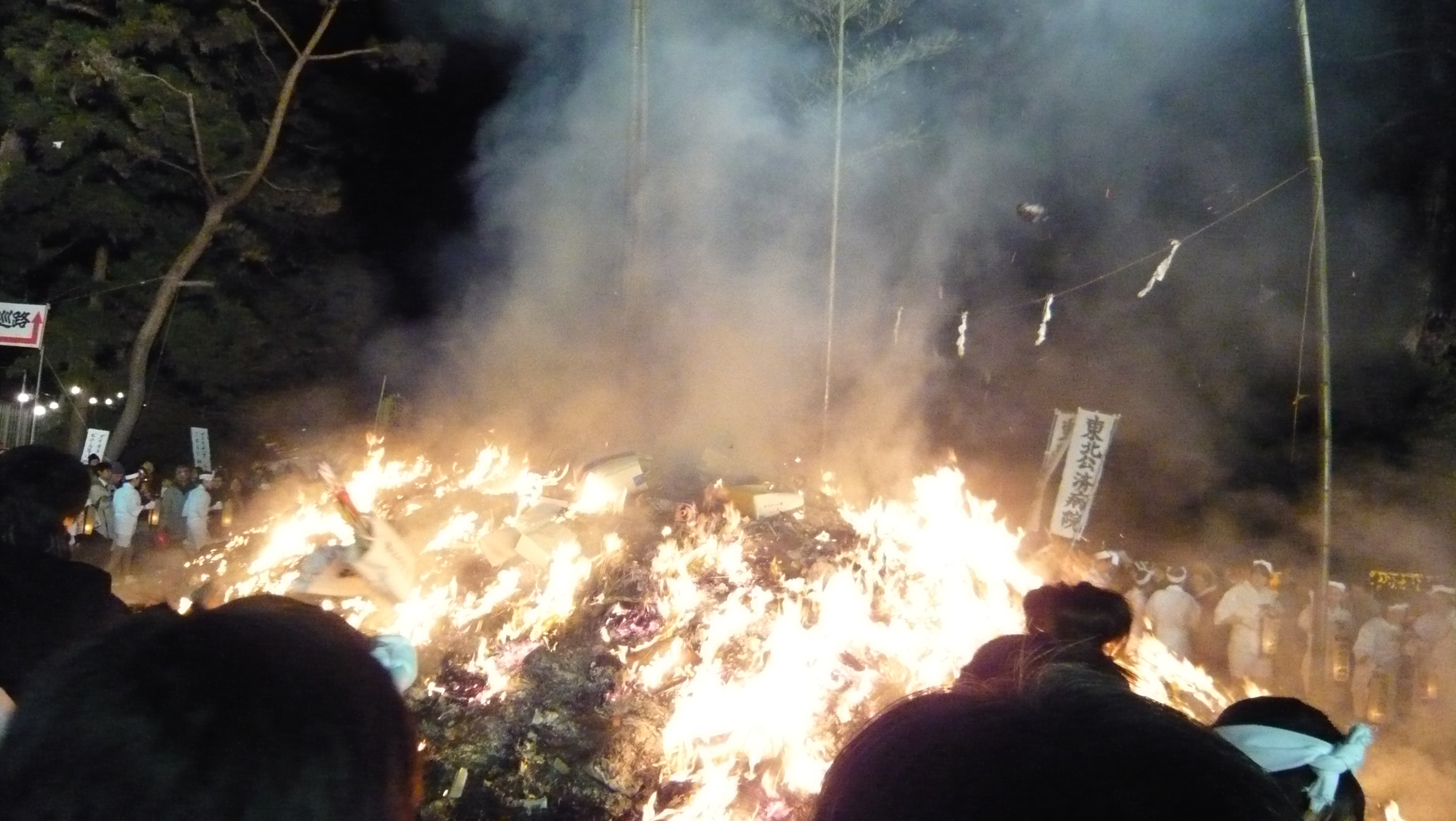 Dontosai Festival at Osaki Hachimangu Shrine